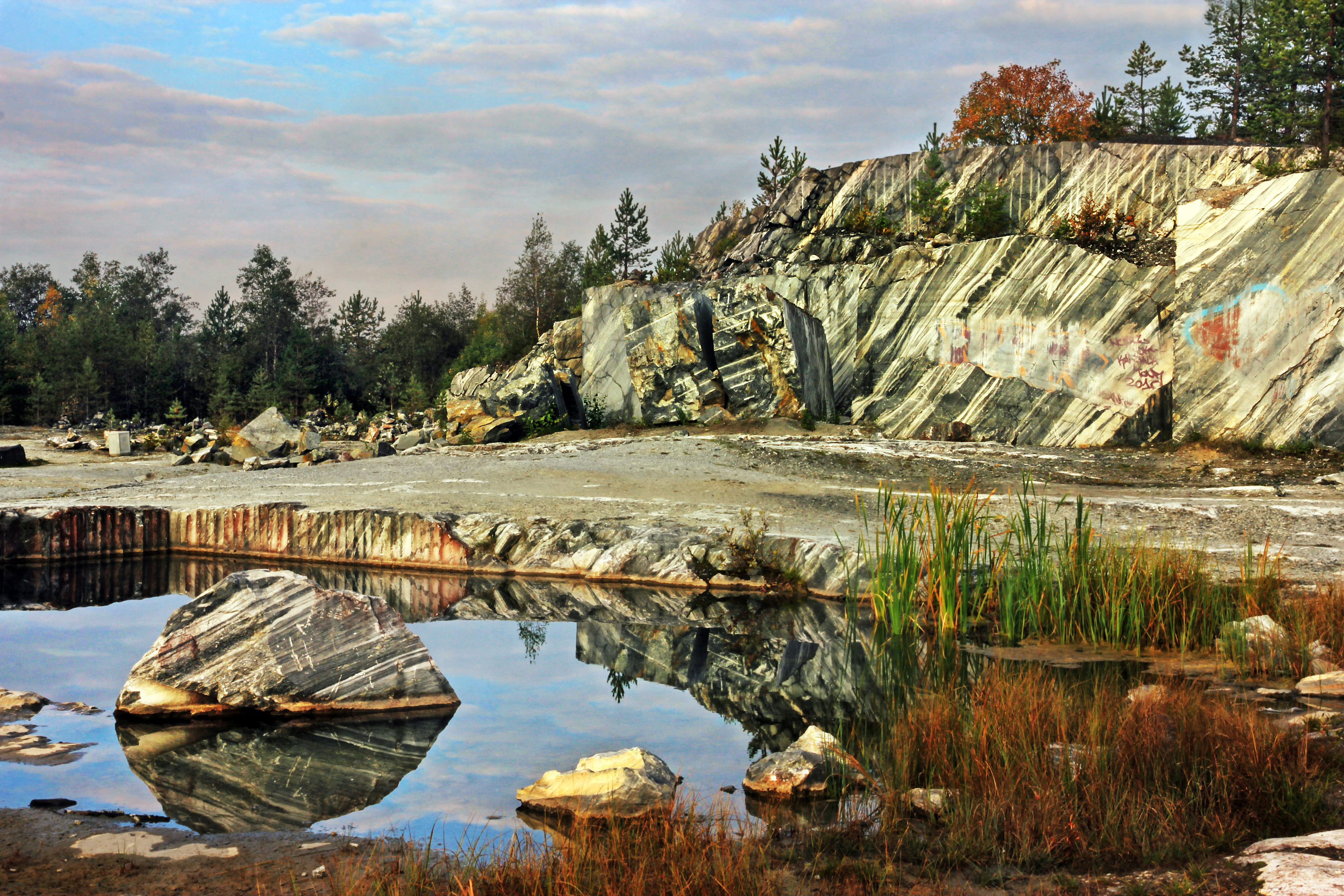 Mountain park Ruskeala in Karelia.RussiaEesti: Ruskeala marmorikaevanduse maapealne osa